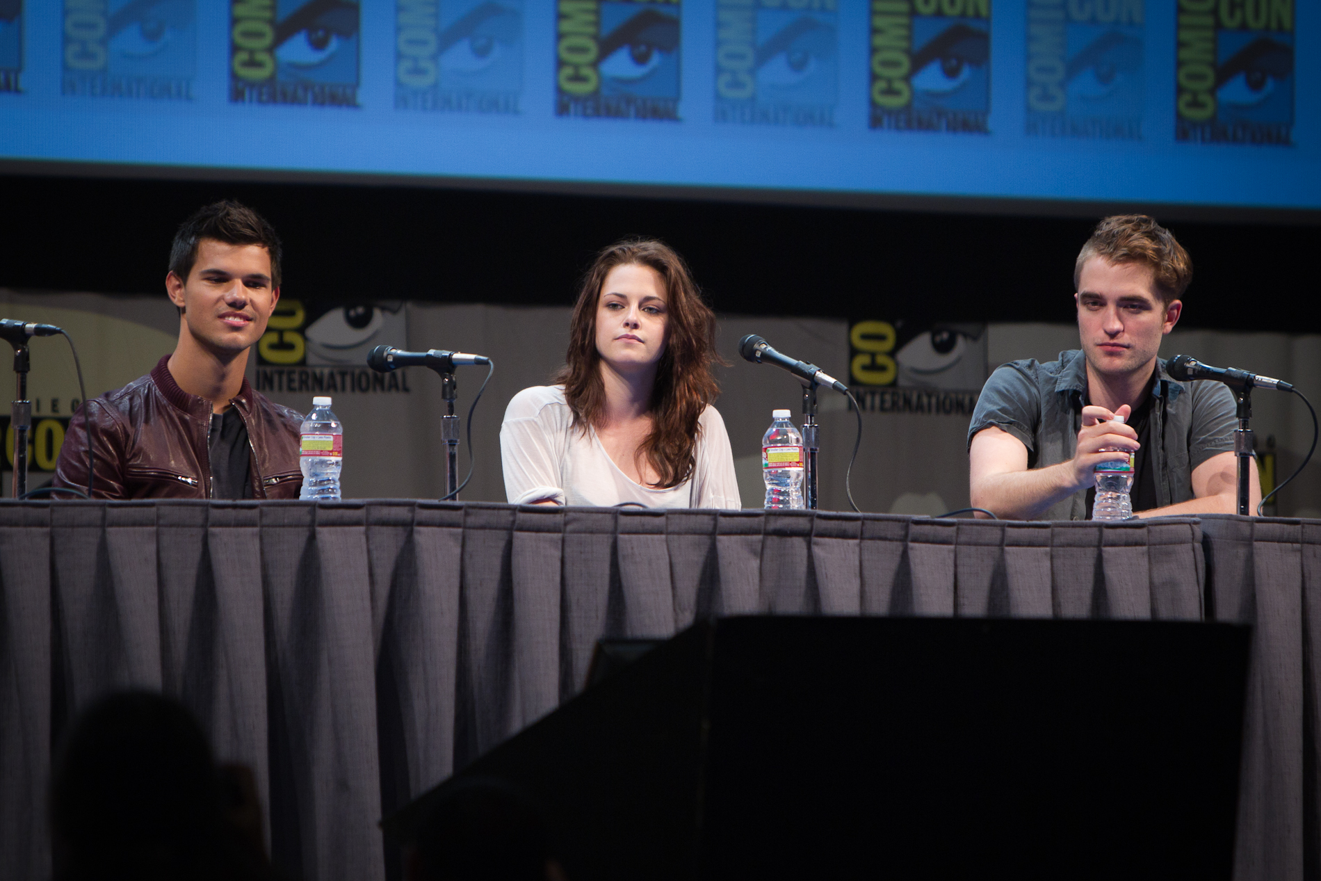 Taylor Lautner, Kristen Stewart and Robert Pattinson at the 2011 San Diego Comic-Con International